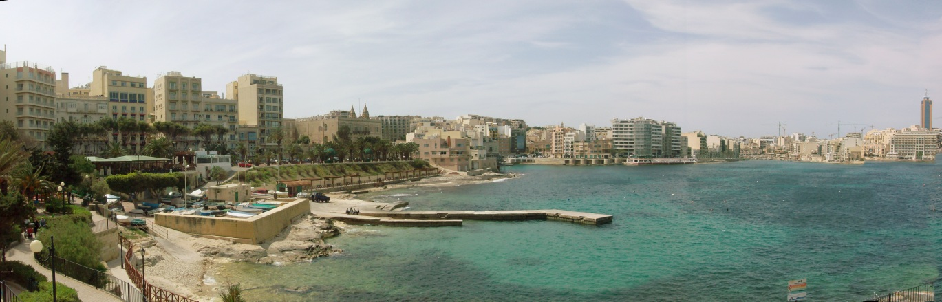 Sliema Promenade landscape